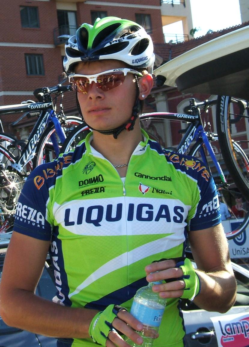 Named cyclist at the en:2009 Tour Down Under team presentation